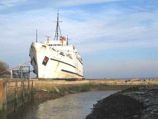 The Fun Ship, Llannerch-y-Mor. The Duke of Lancaster was originally a passenger ferry operating out of Heysham. After ceasing that service, it had a chequered career abroad before returning to the UK to be beached in this creek at Llannerch-y-Mor as a leisure attraction.